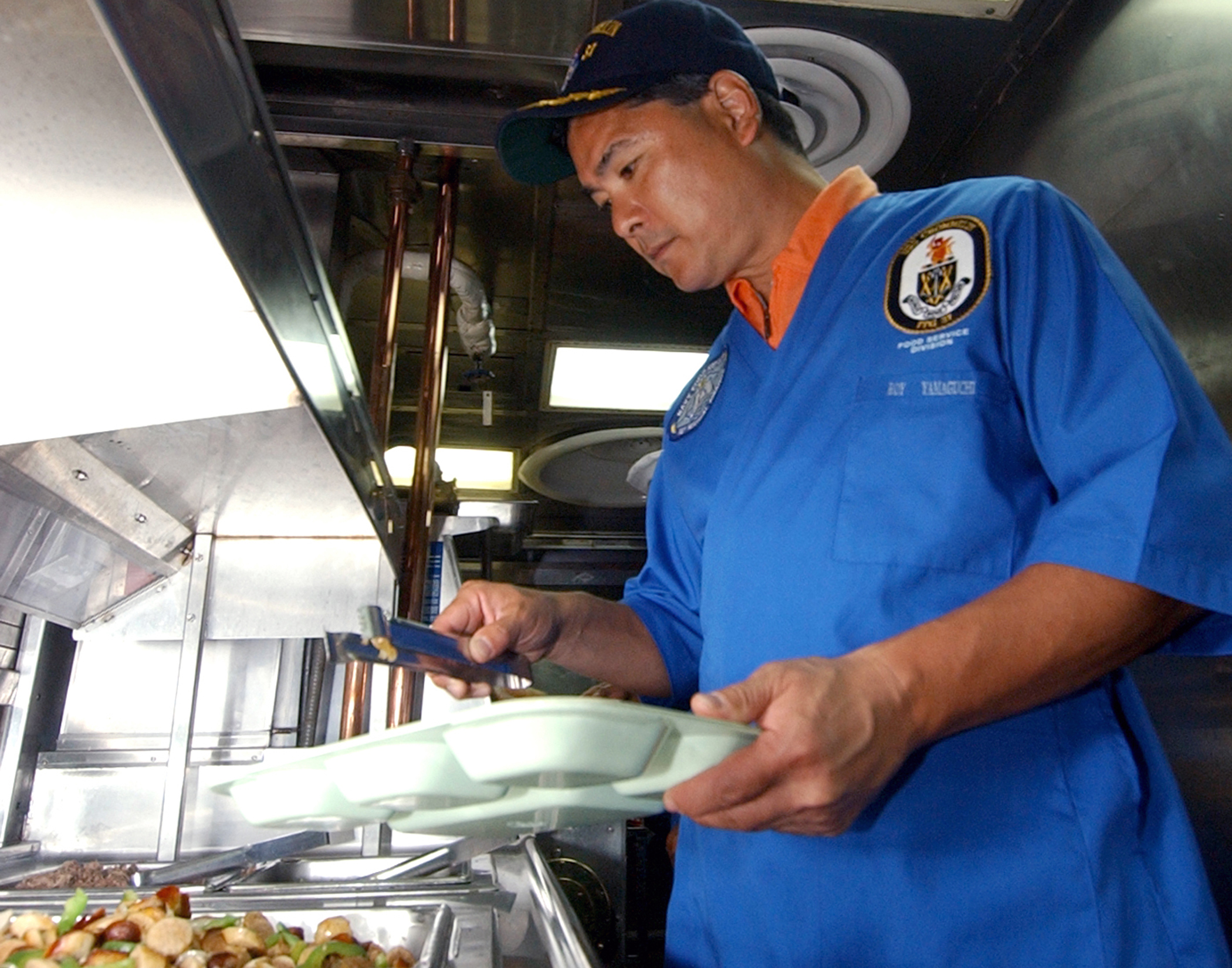 Pearl Harbor, Hawaii (May 3, 2004) - Celebrity Chef Roy Yamaguchi dishes up lunch during a visit to the Pearl Harbor-based guided missile frigate USS Crommelin (FFG 37). The Ney award-winning Culinary Specialists assigned to the ship invited Chef Yamaguchi to come aboard and share his thoughts on food preparation and cooking. Yamaguchi is often regarded as a culinary pioneer because of his fusion of European and Pacific styles of cooking. He operates 31 "Roy's" restaurants scattered throughout the United States, Japan and Guam. Chef Roy has also hosted six seasons of the PBS-TV show, "Hawaii Cooks with Roy Yamaguchi" seen in all 50 states, as well as over 60 countries. U.S. Navy photo by Journalist 1st Class Jim Williams. (RELEASED)